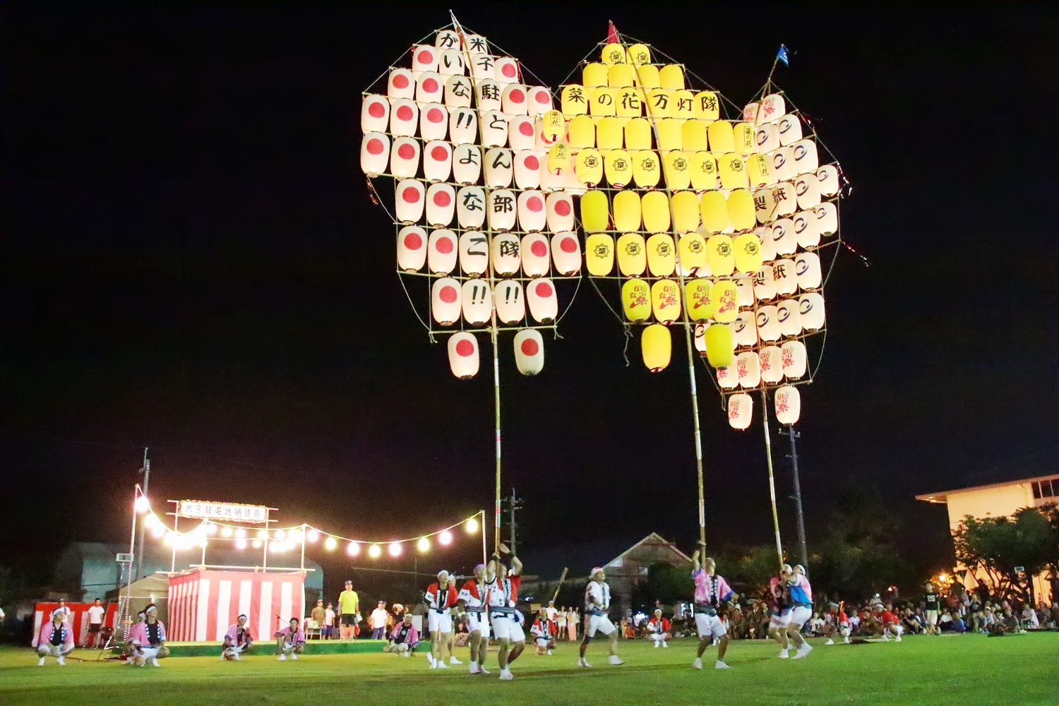 Title 米子駐屯地納涼祭.jpg Album Events and Public Relations (イベント・行事・広報活動等) 米子駐屯地納涼祭（米子）